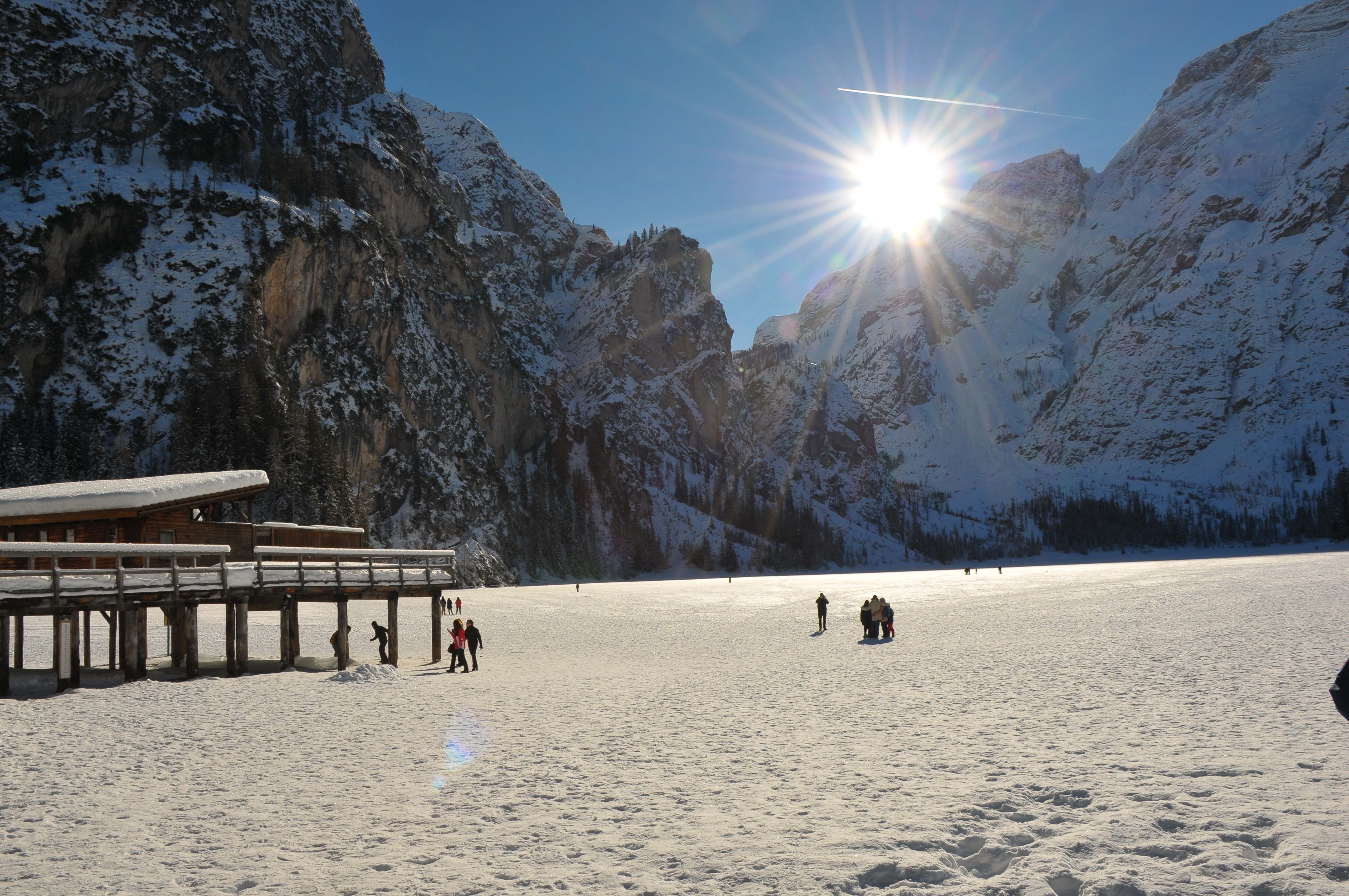 Frozen Lake Braies in Winter